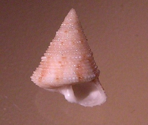 Calliostoma scobinatum Adams in Reeve, 1854, a sea snail in the family Calliostomatidae; Philippines